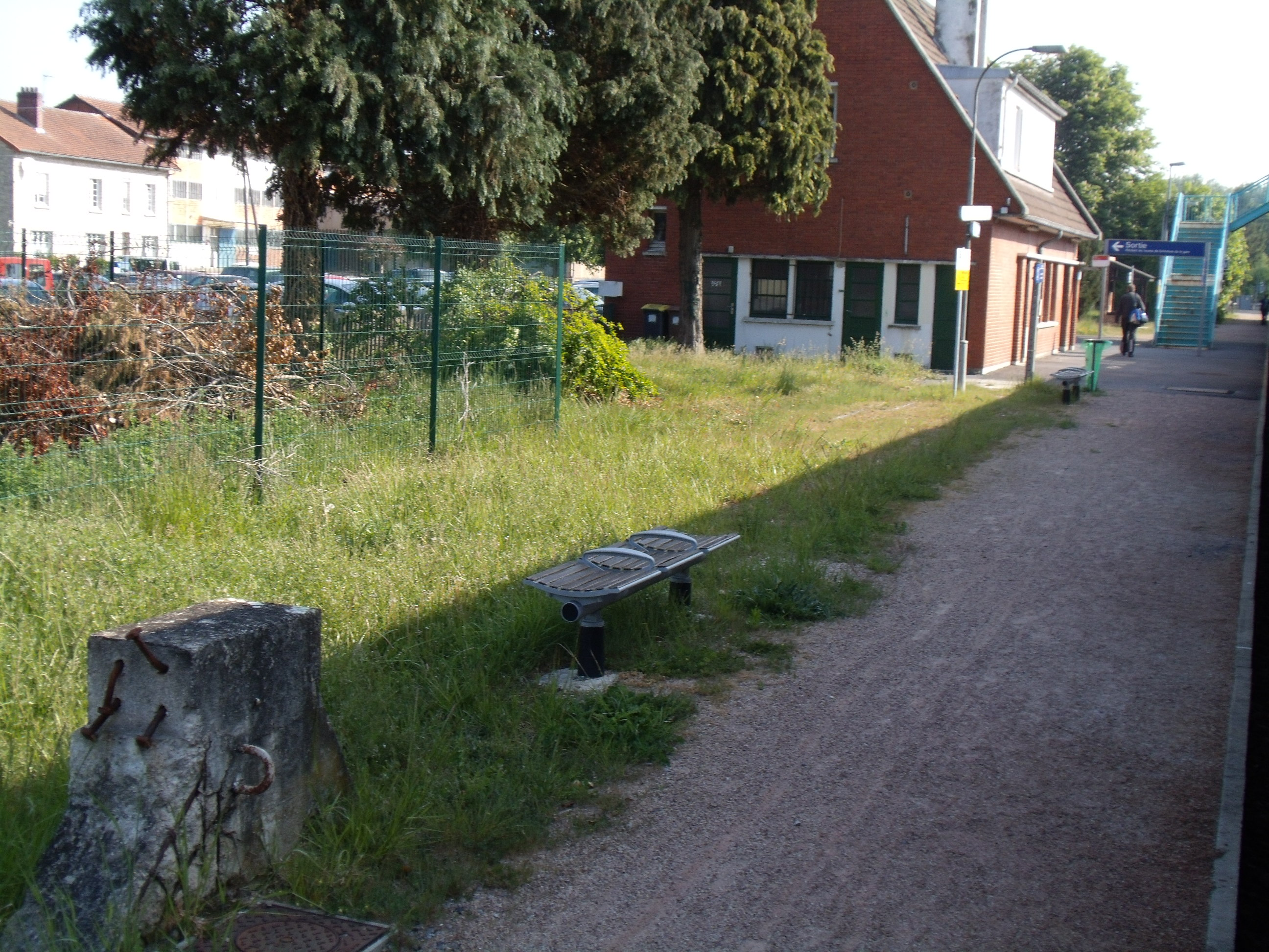 Anizy-Pinon station, platform toward Laon